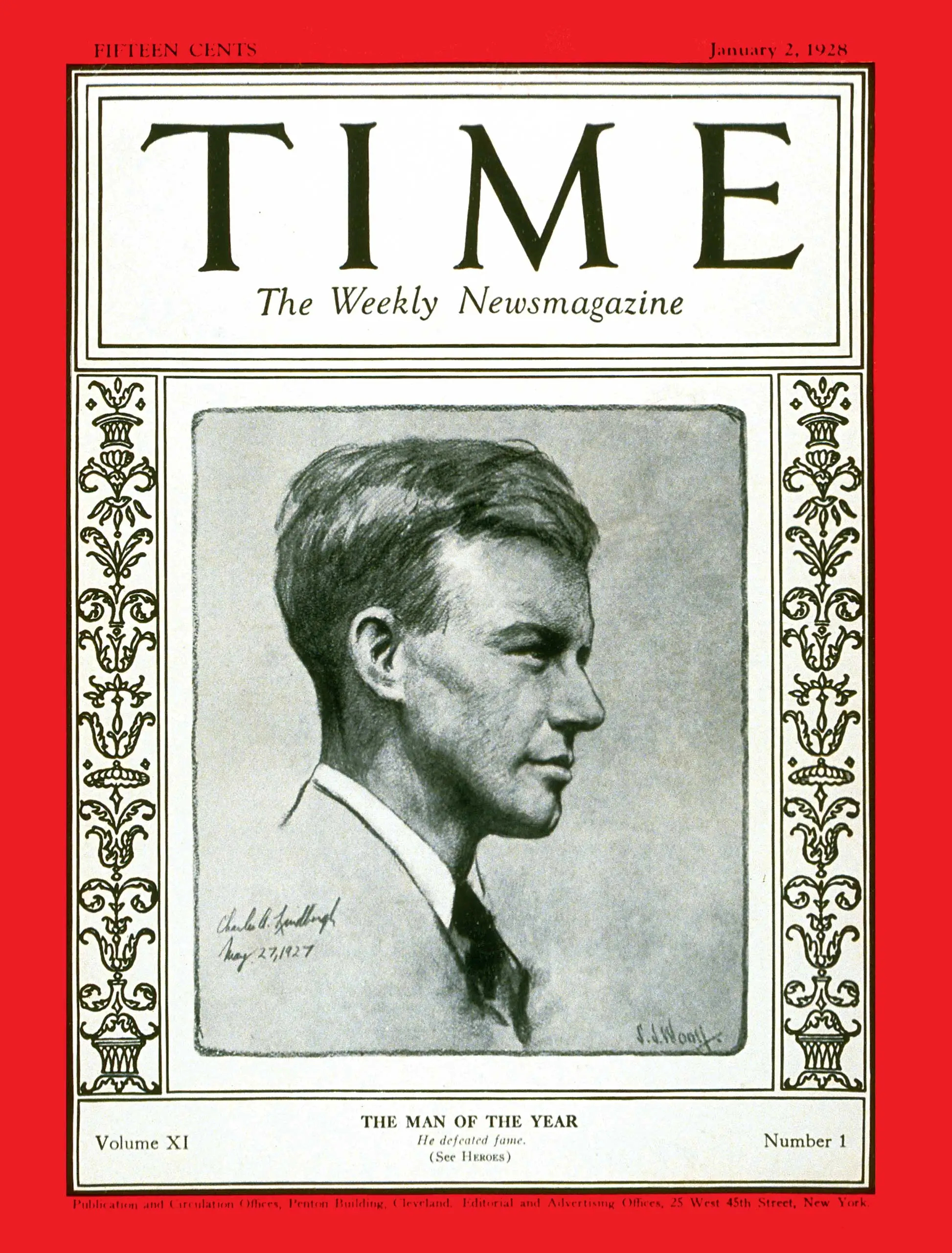 Aviator Charles A. Lindbergh on Time cover 1928.